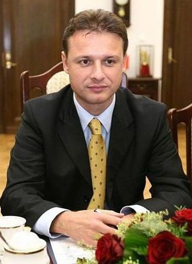 Minister of foreign affairs of Croatia in the Polish Senate